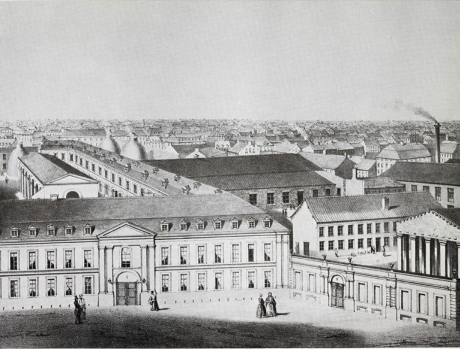 Porcelain works of Peterinck in Tournai, Belgium (Lithograph published in Belgique industrielle. Vues des Etablissements industriels de la Belgique, c.1854-56)